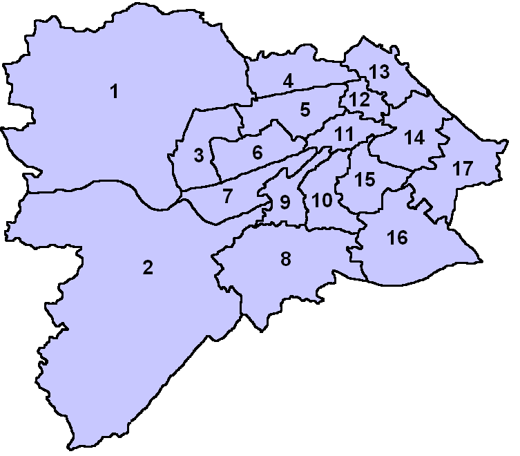 map of the new Edinburgh council wards